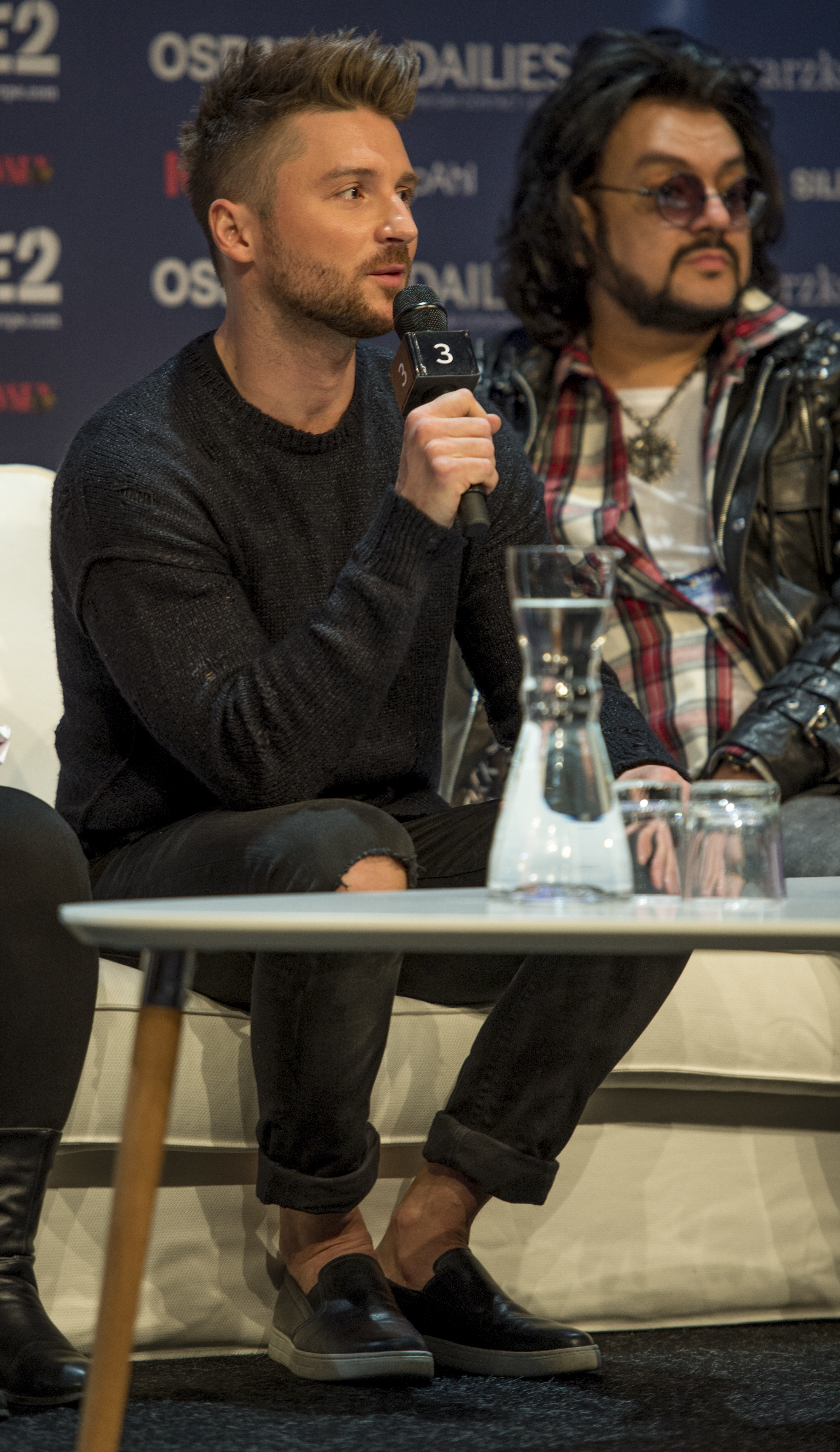 Sergey Lazarev at a Meet & Greet during the Eurovision Song Contest 2016 in Stockholm. (Help translate this text)